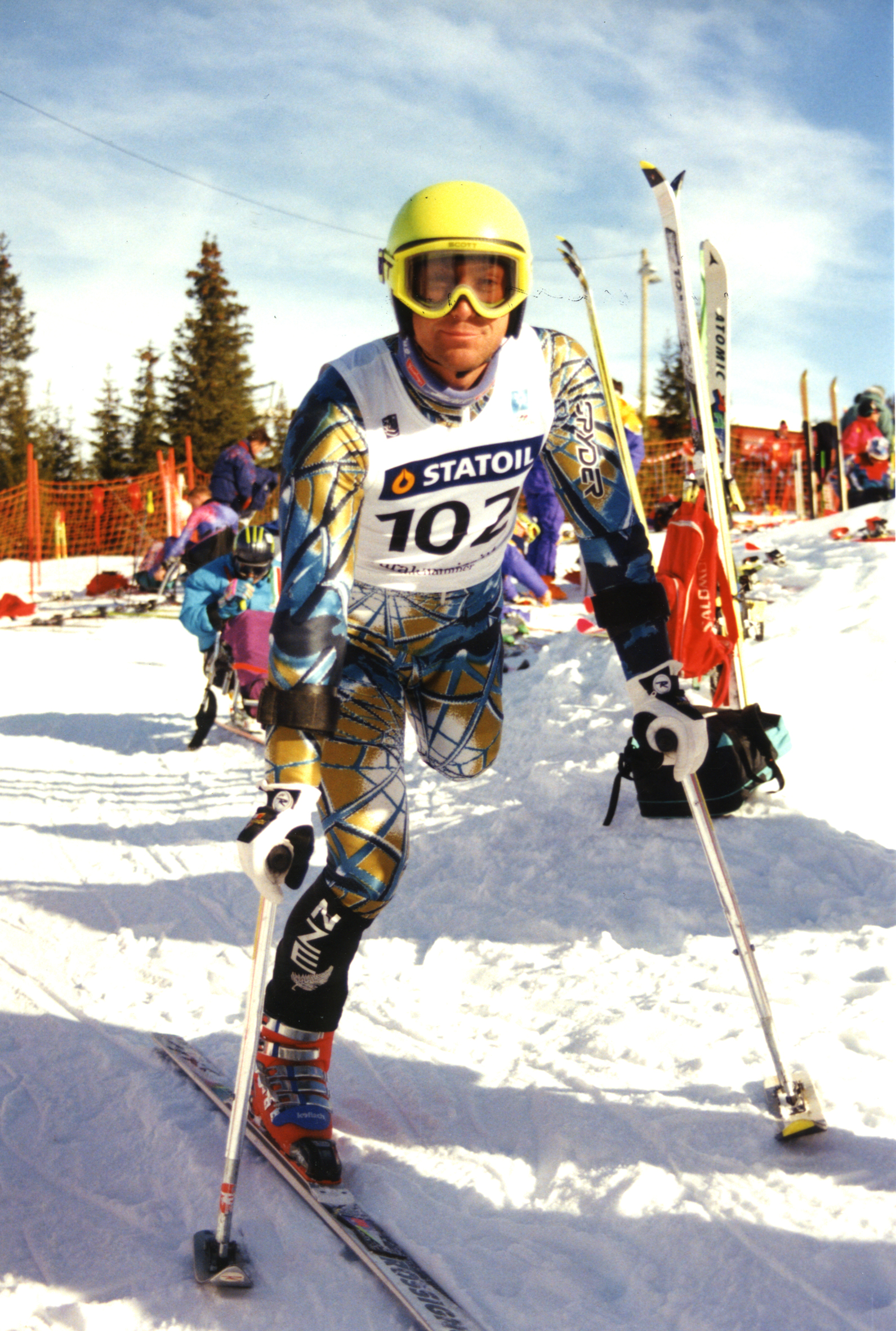 Australian Paralympian Michael Milton at the 1994 Winter Games in Lillehammer